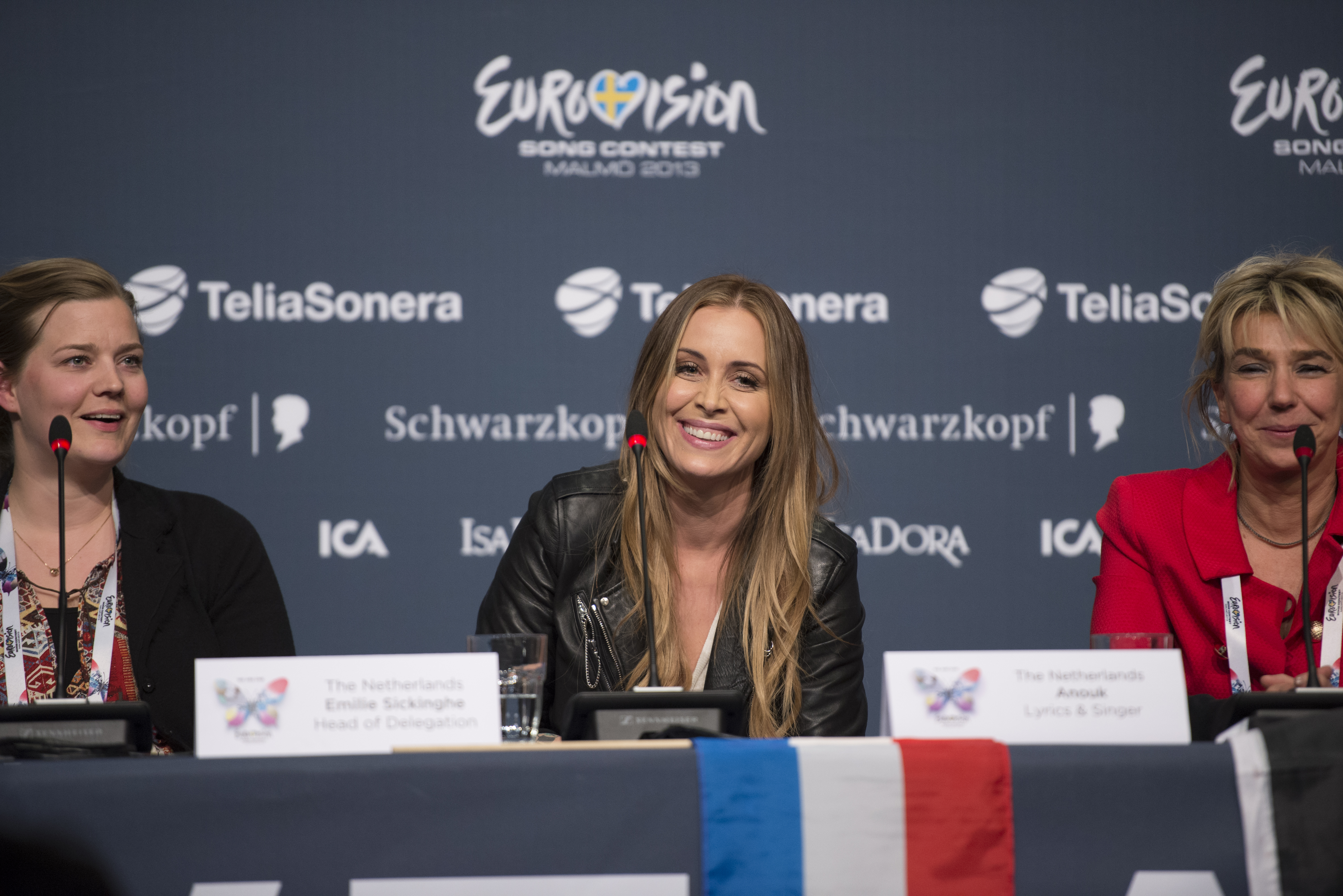 Anouk at a press conference during the Eurovision Song Contest 2013 in Malmö. (Help translate this text)